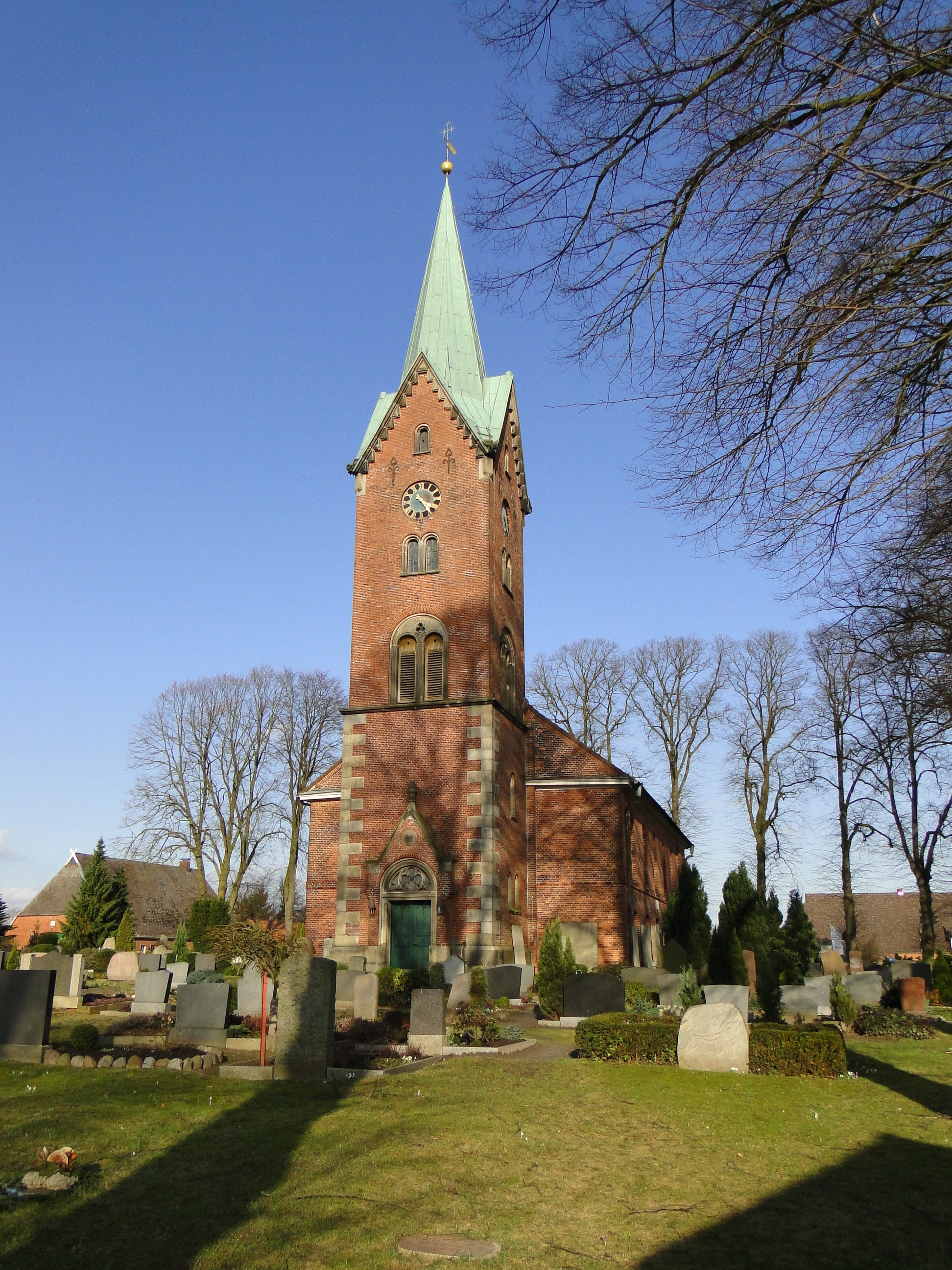 Church in Hohenhorn, disctrict Herzogtum Lauenburg, Schleswig-Holstein, Germany